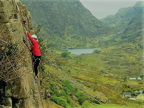 Rock climbing on the east side of the northern end of the Gap of Dunloe with Augher Lake and the Head of the Gap in the background